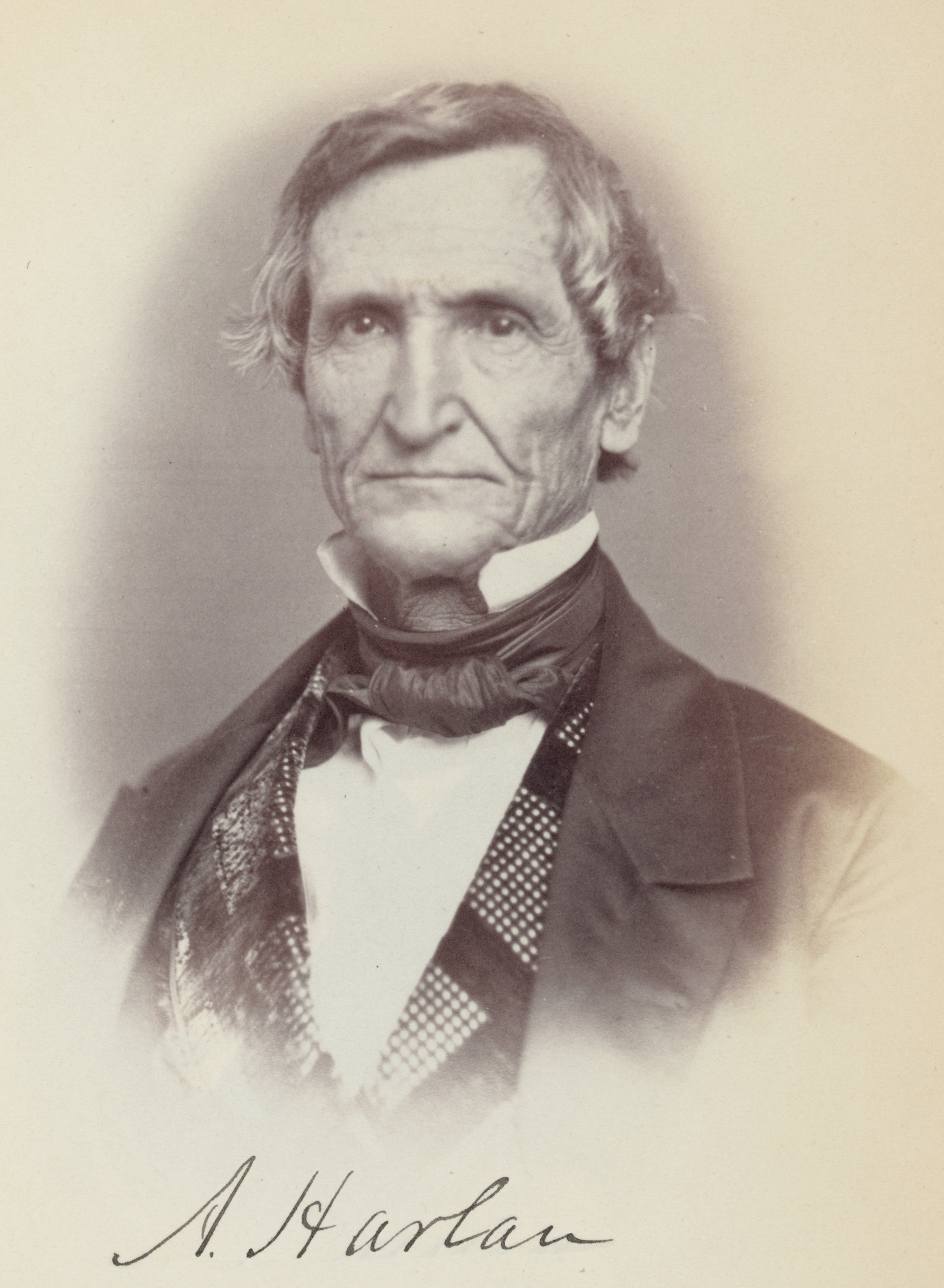 Aaron Harlan, congressman from Lima, Ohio. From (1859) McClees' gallery of photographic portraits of the senators, representatives & delegates to the thirty-fifth Congress, Category:Washington: McClees and Beck, p. 191 .